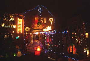 A photo of a Christmas display at Haycombe Drive, Whiteway, Bath.